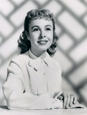 1952 Dancer/Actress Marge Champion Press Photo